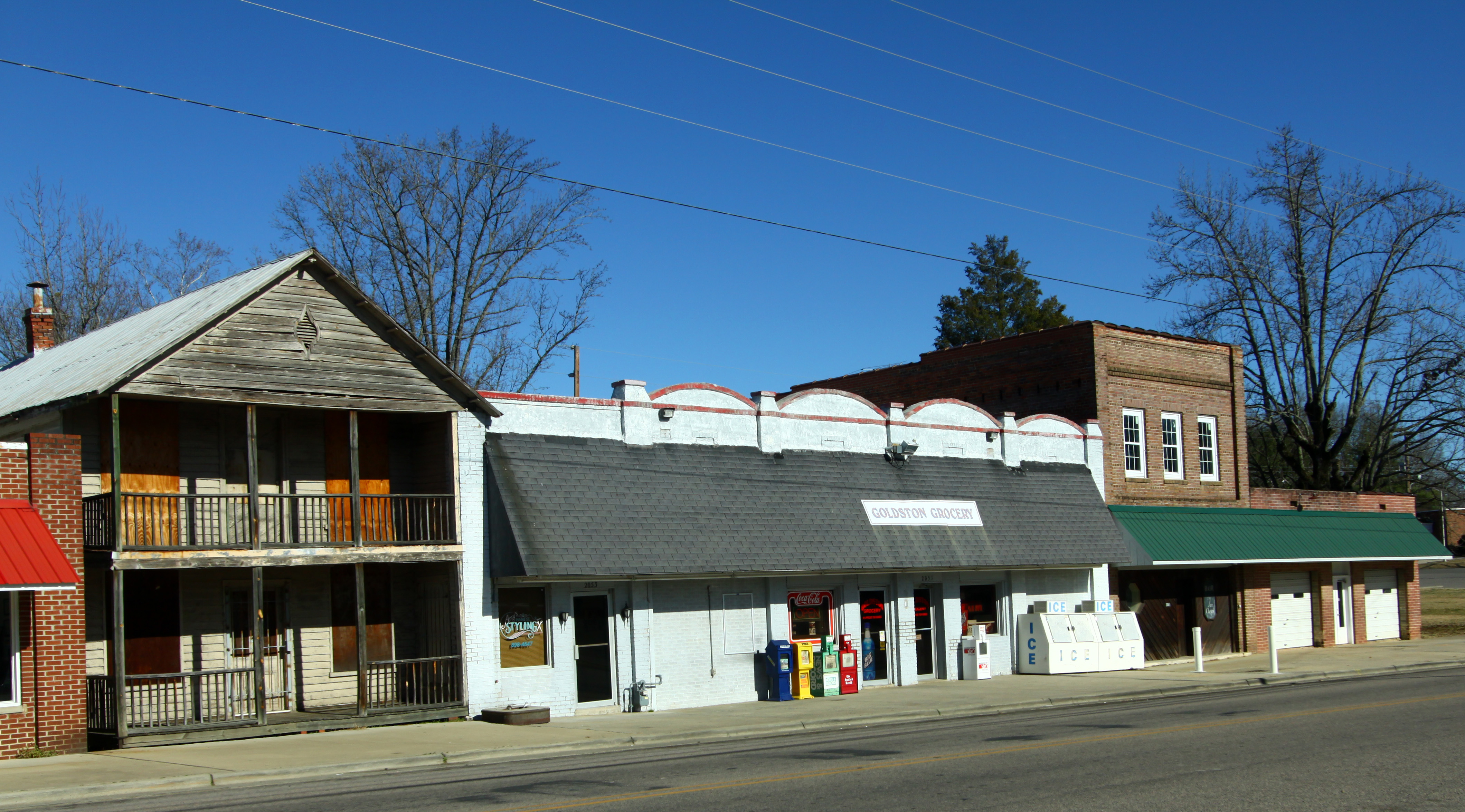 Some of the buildings along the railroad tracks on the main thoroughfare.